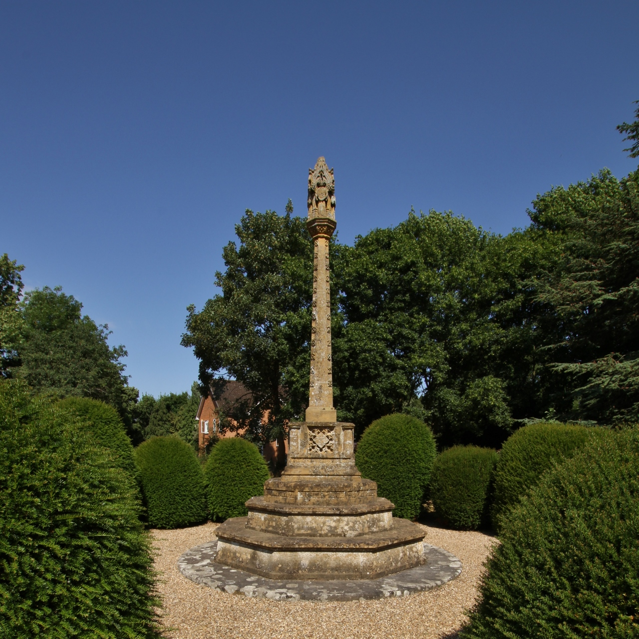 Stone cross in the parish churchyard of SS Peter and Paul, Shiplake, Oxfordshire